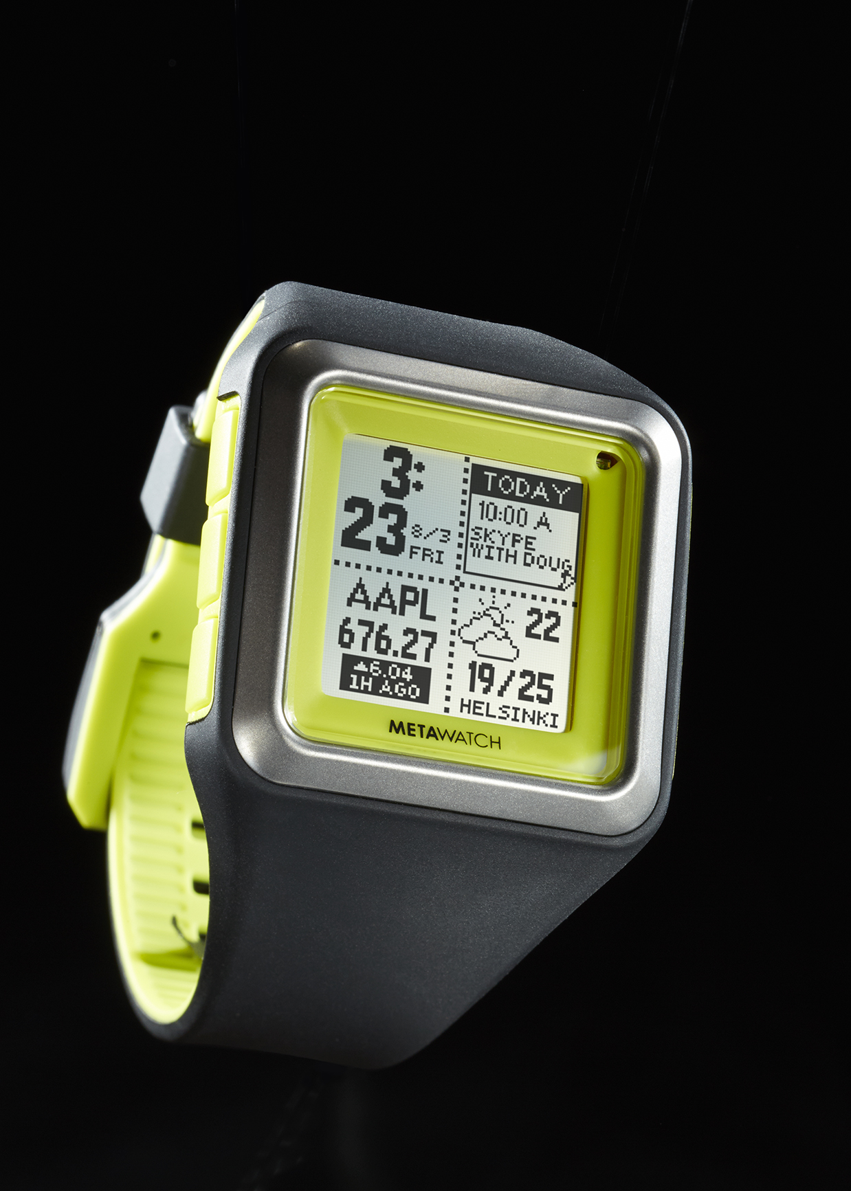 SmartWatch MetaWatch model Strata, style MW3006 in optic green color. Displays time, calendar event, capital stock value and weather on display divided into quadrants.